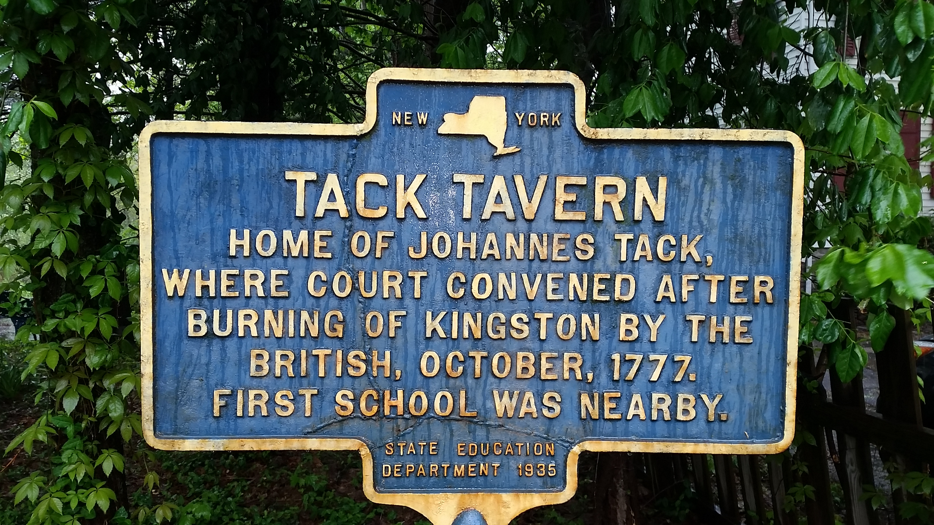 NY State Historical Marker for the Tack Tavern which, with the Davis Tavern and Bogardus Tavern is where New York governments used to conduct business in this area.